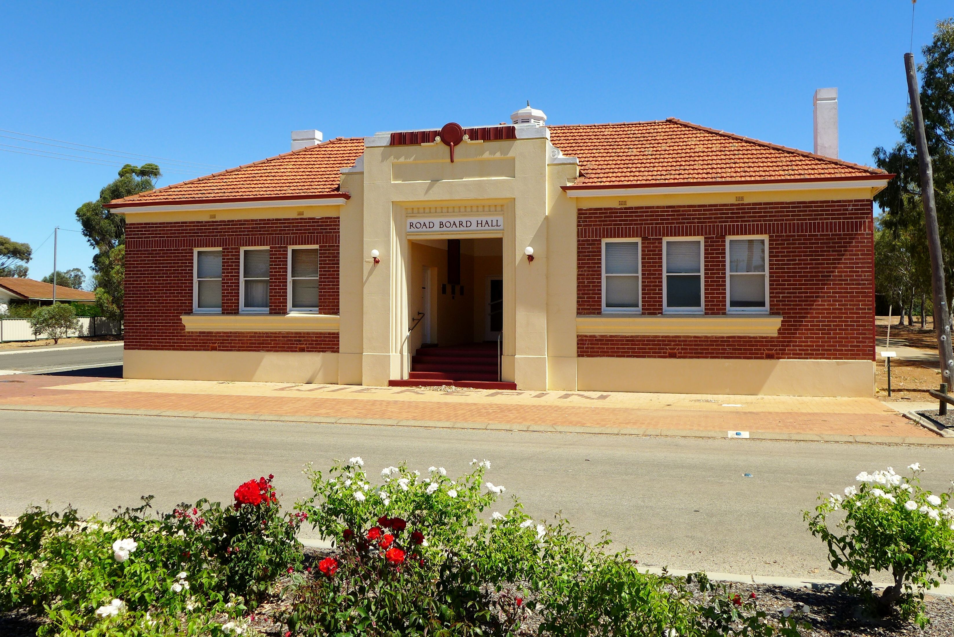 View of the Wickepin Town Hall, Johnston Street, cnr Campbell Street, Wickepin, Western Australia.